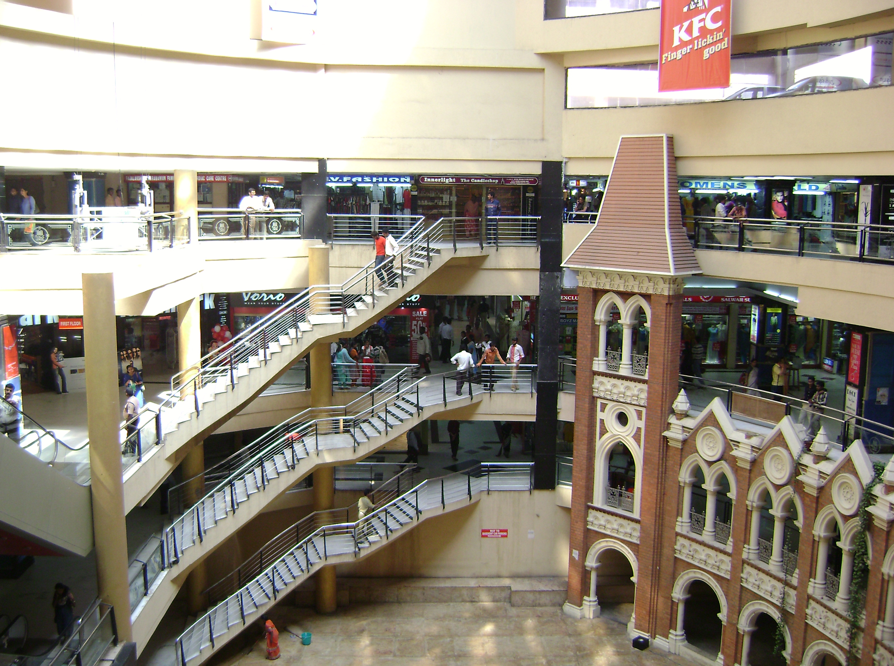 Spencers Plaza in Chennai